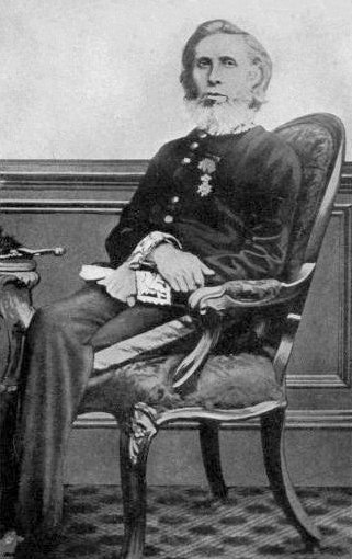 Photographed before 1876